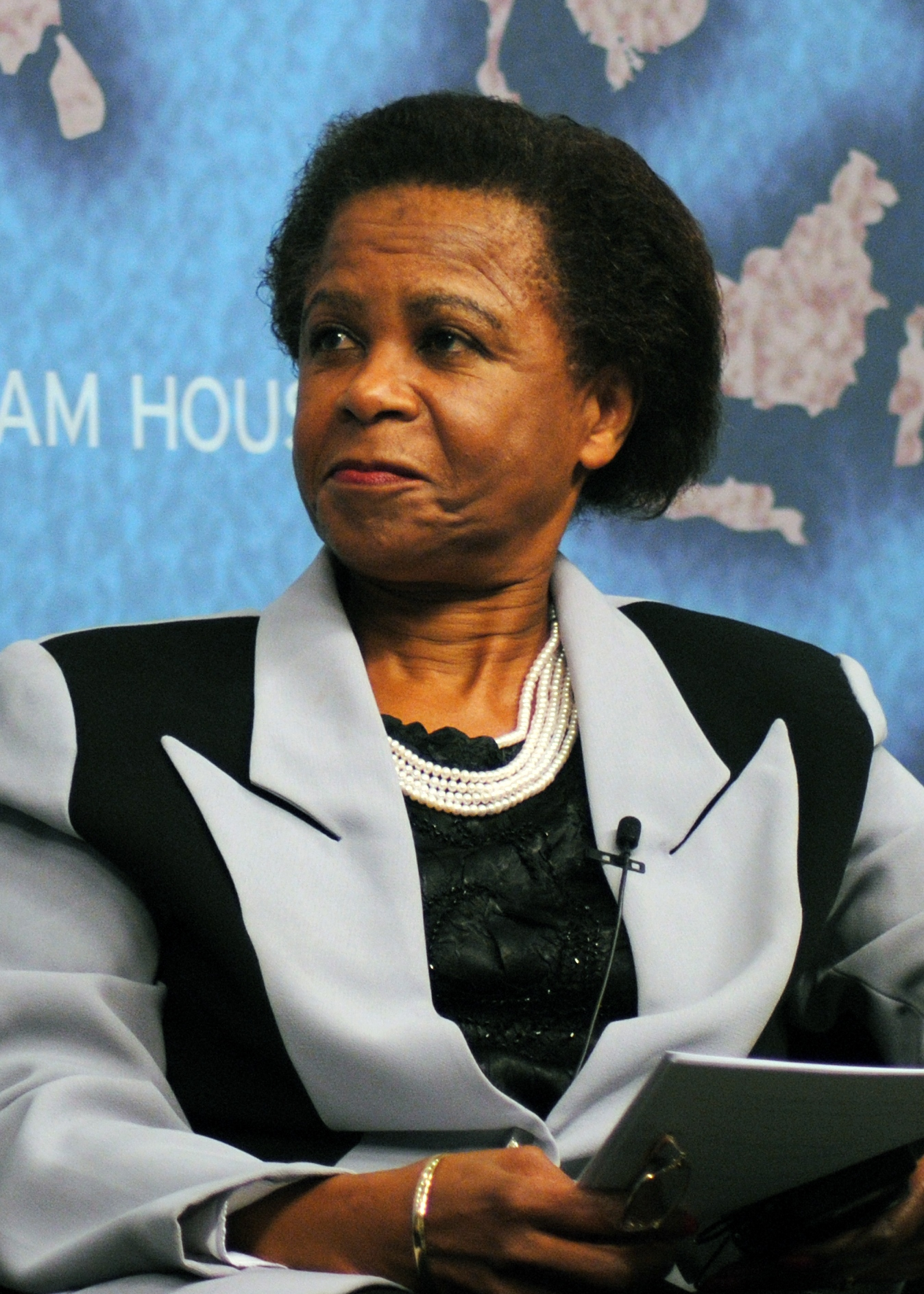 Mamphela Ramphele. Unlocking South Africa's Potential: The Challenge for New Political Parties, 28 May 2013 cht.hm/137Z0ei.